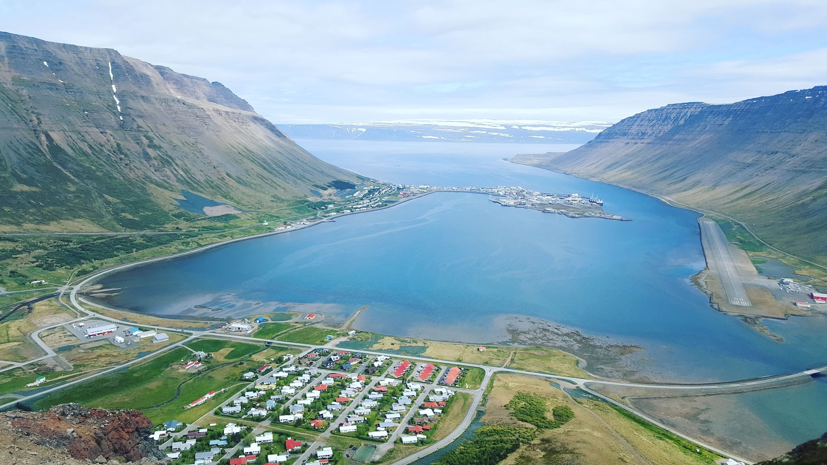 Town of Ísafjörður, seen from the top of Kubbi mountain on 12 June 2019.